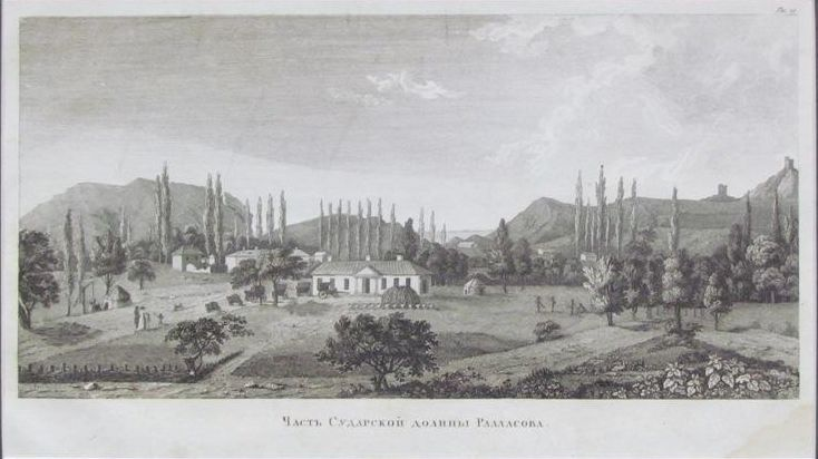 Sudak valley, German Colony. 1805